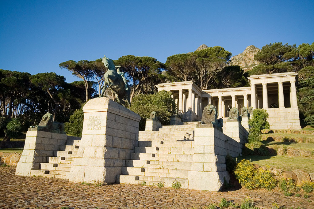 Rhodes Memorial, Cape Town, South Africa. Picture taken by me, Don Bayley, on 28 November 2005. Donated to public domain.